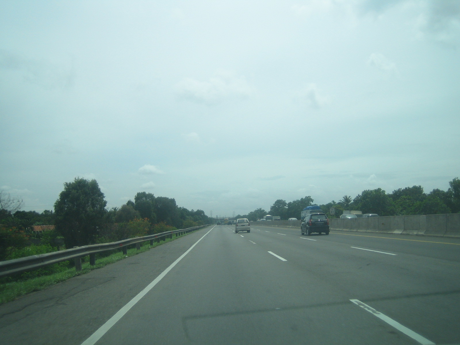 Jakarta - Cikampek Toll Road KM 61